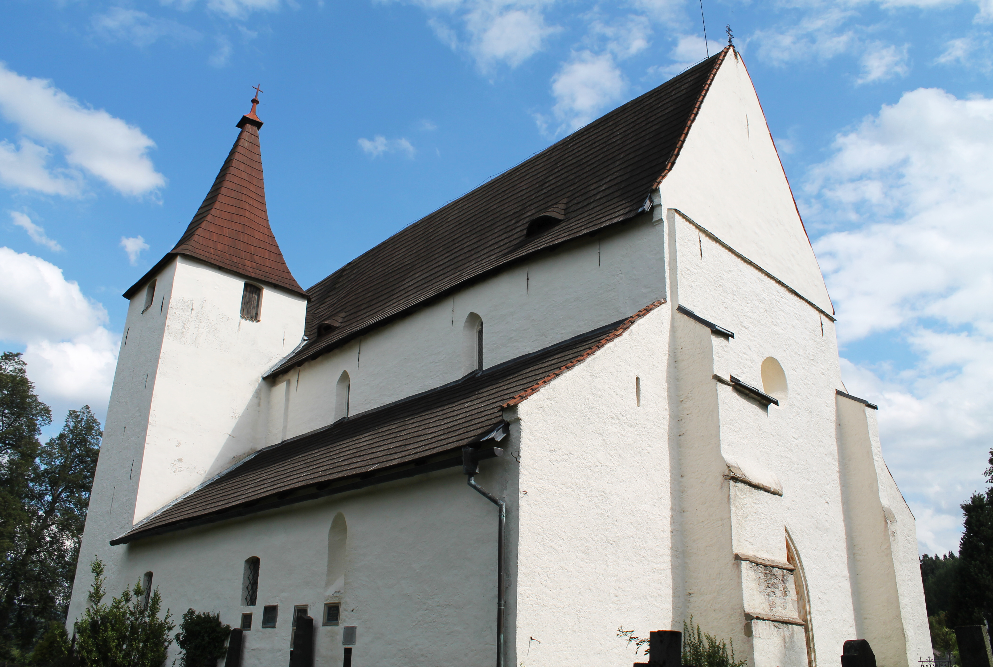 Church of Saint Nicholas, Kašperské Hory, Klatovy District, Czech Republic - Google Maps - Google Earth